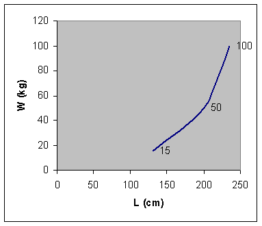 Length weight relationship of Silurus glanis